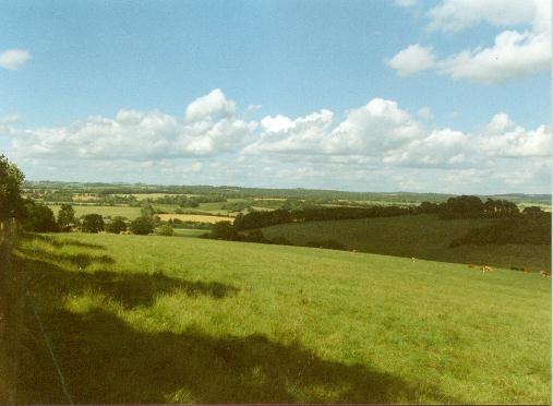 View of Ambley Wood south of Upton. This is a typical view of the chalk North Wessex Downs in the north west part of Hampshire. It is a scheduled Area of Outstanding Natural Beauty (AONB). Across the valley is what remains of Ambley Wood. Sheep and dairy farming is typical of the area though farming subsidies encourage cereal production. The small hamlet of Upton is to the left in the photo, hidden in the fold of the hill.